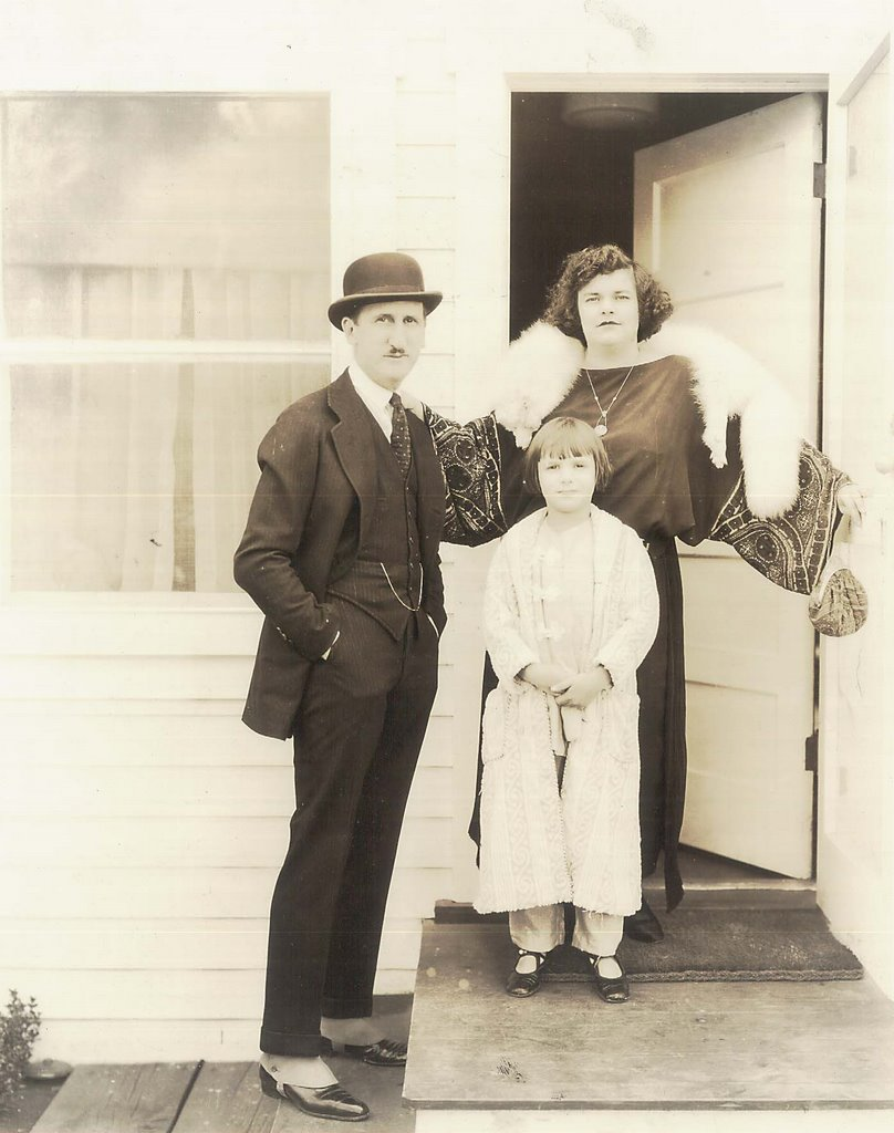 Jackie Coogan with parents